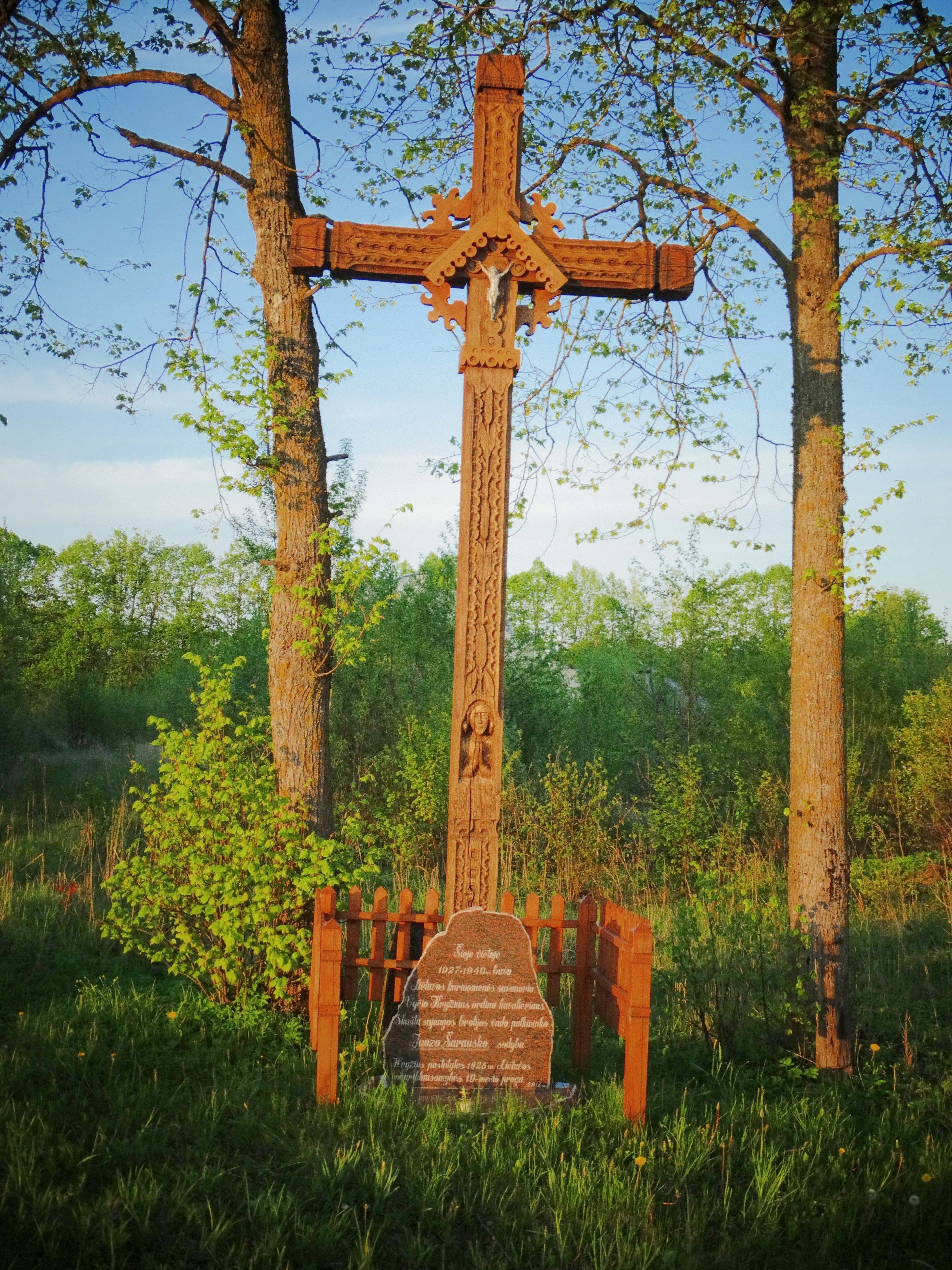 Jadvimpolis, birthpplace of Juozas Šarauskas, Radviliškis district, Lithuania